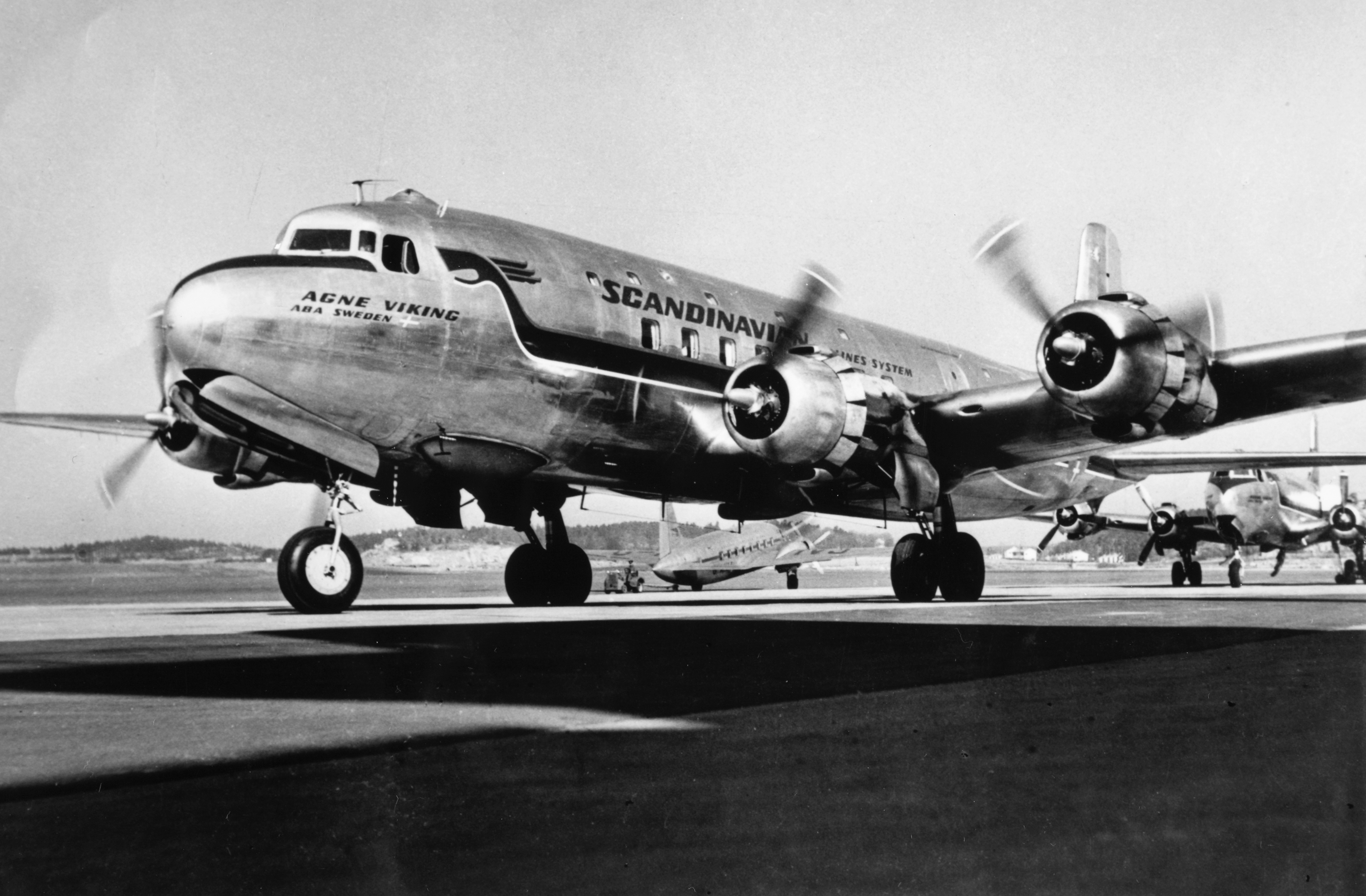 SAS DC-6, Agne Viking SE-BDB on the ground, at the airport